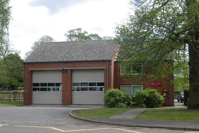 Ascot Fire Station